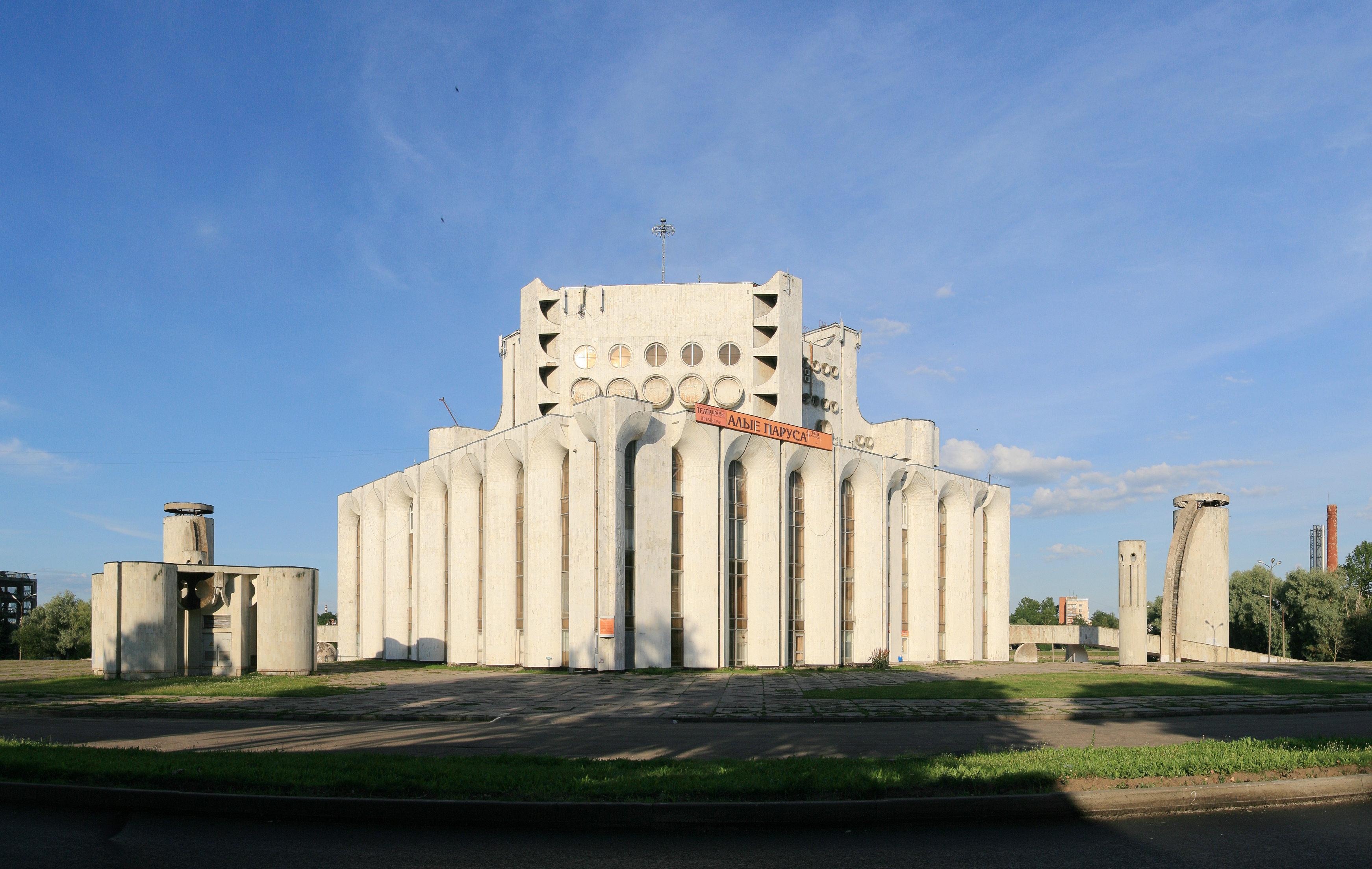 Dostoevsky Drama Theatre in Veliky Novgorod